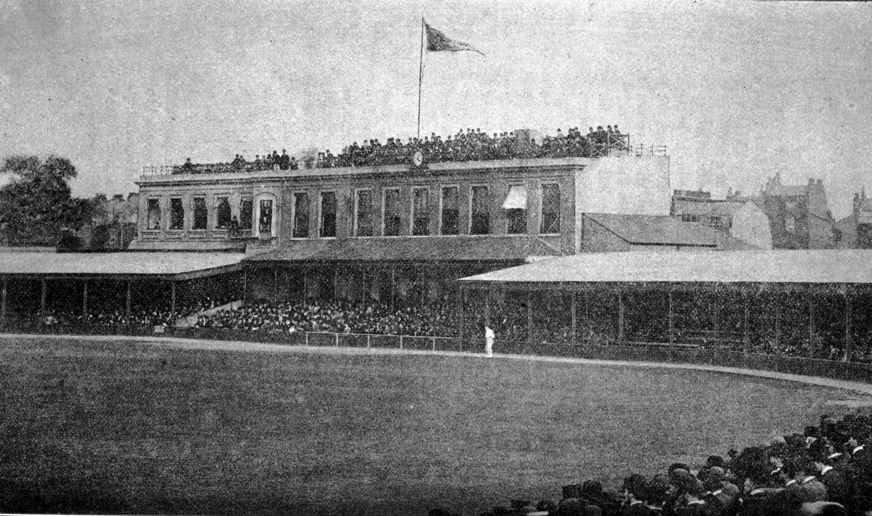 The Kennington Oval (or "The Oval") of London, where many editions of the FA Cup final were played.